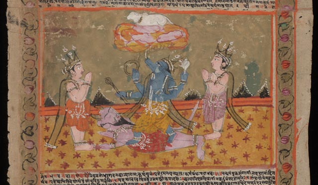 Immediate